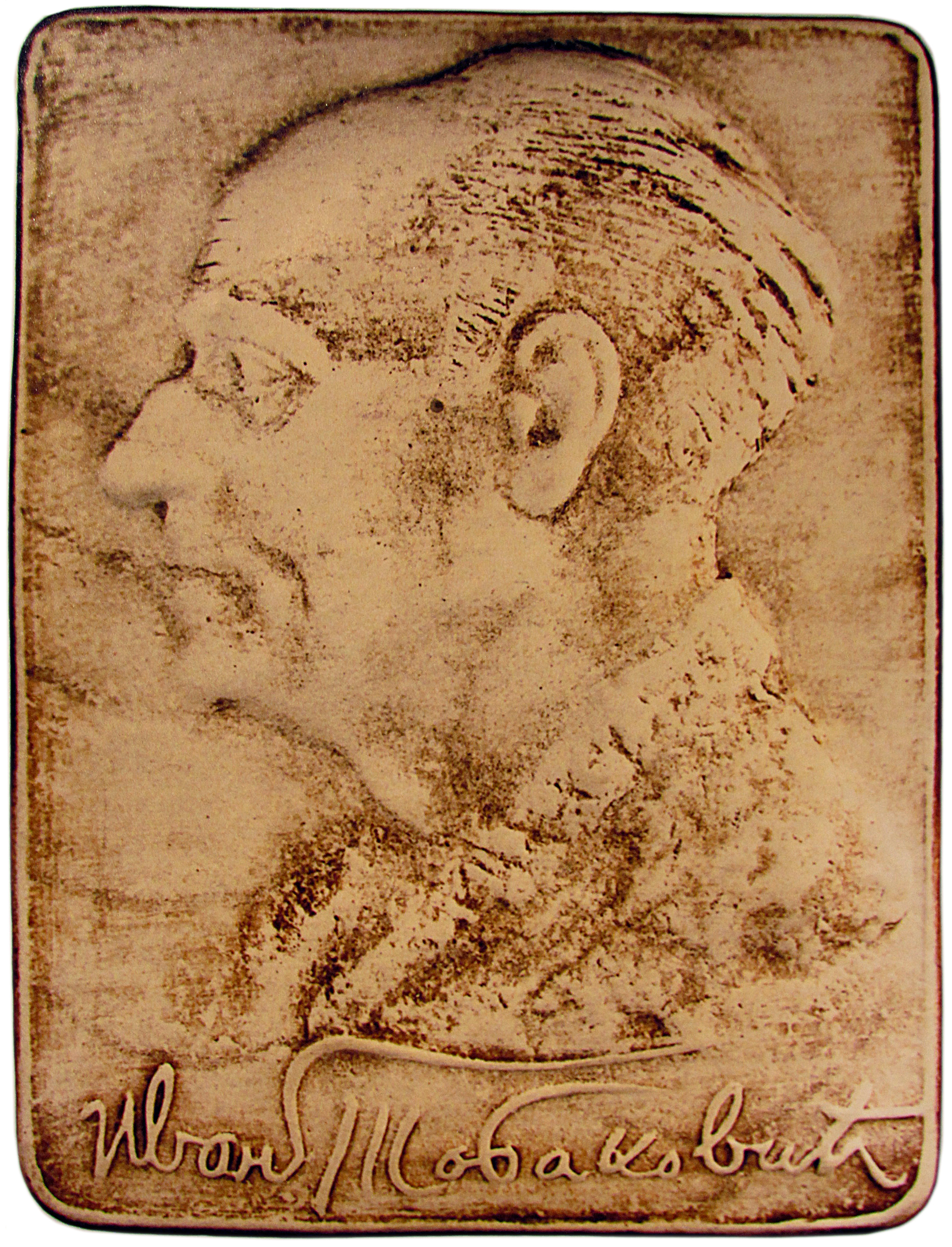 Ivan Tabakovic plaque